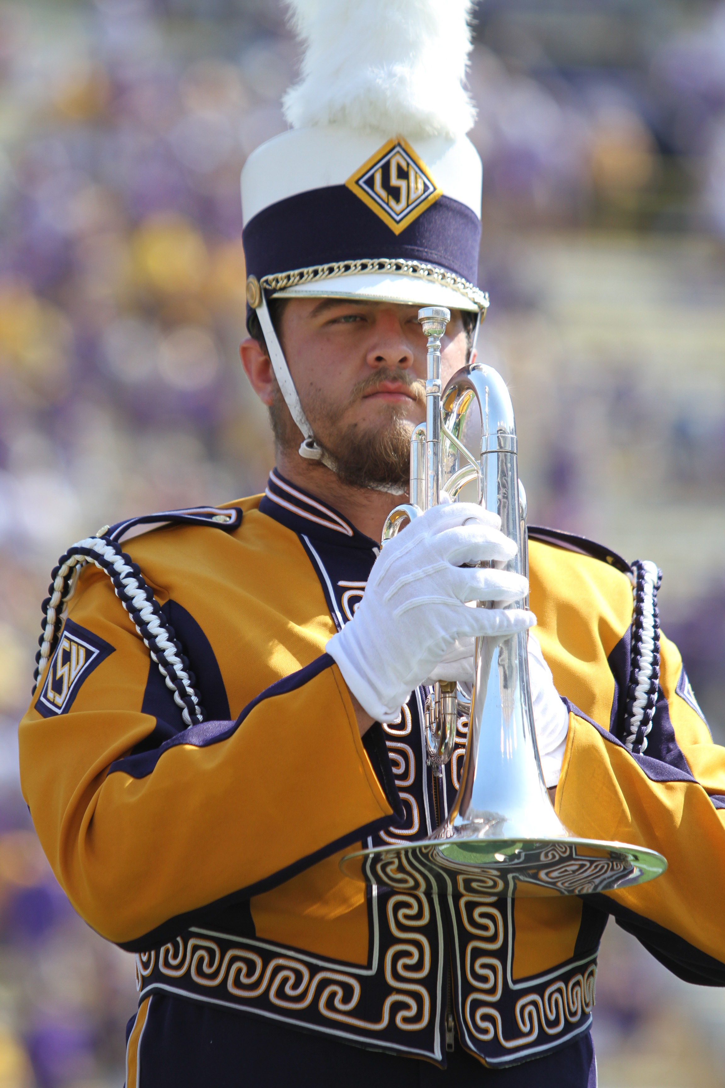 LSU Marching Band, LSU Tigers Football vs Utah State Aggies, Tiger Stadium, October 5, 2019, Baton Rouge, Louisiana, Tammy Anthony Baker, Photographer @tabinla @tmabaker